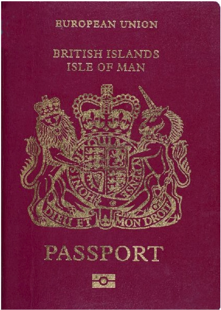 Passport of the Isle of Man